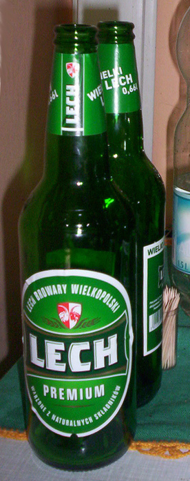 Bottles of polish beer Lech Premium.